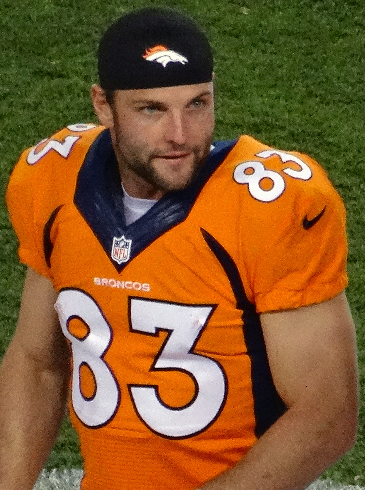 Wes Welker, a player on the National Football League.